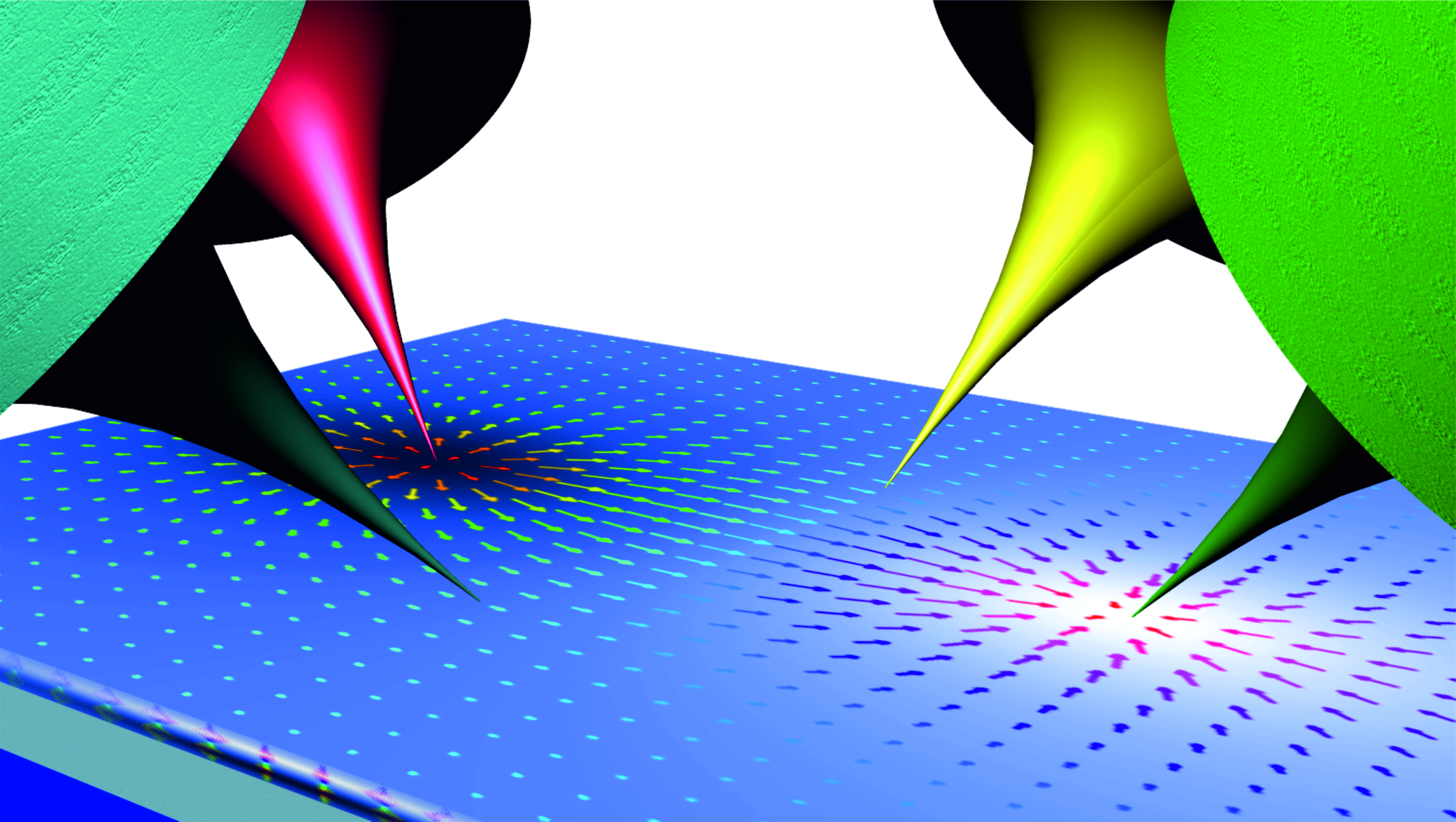 Scheme of a multi-tip STM